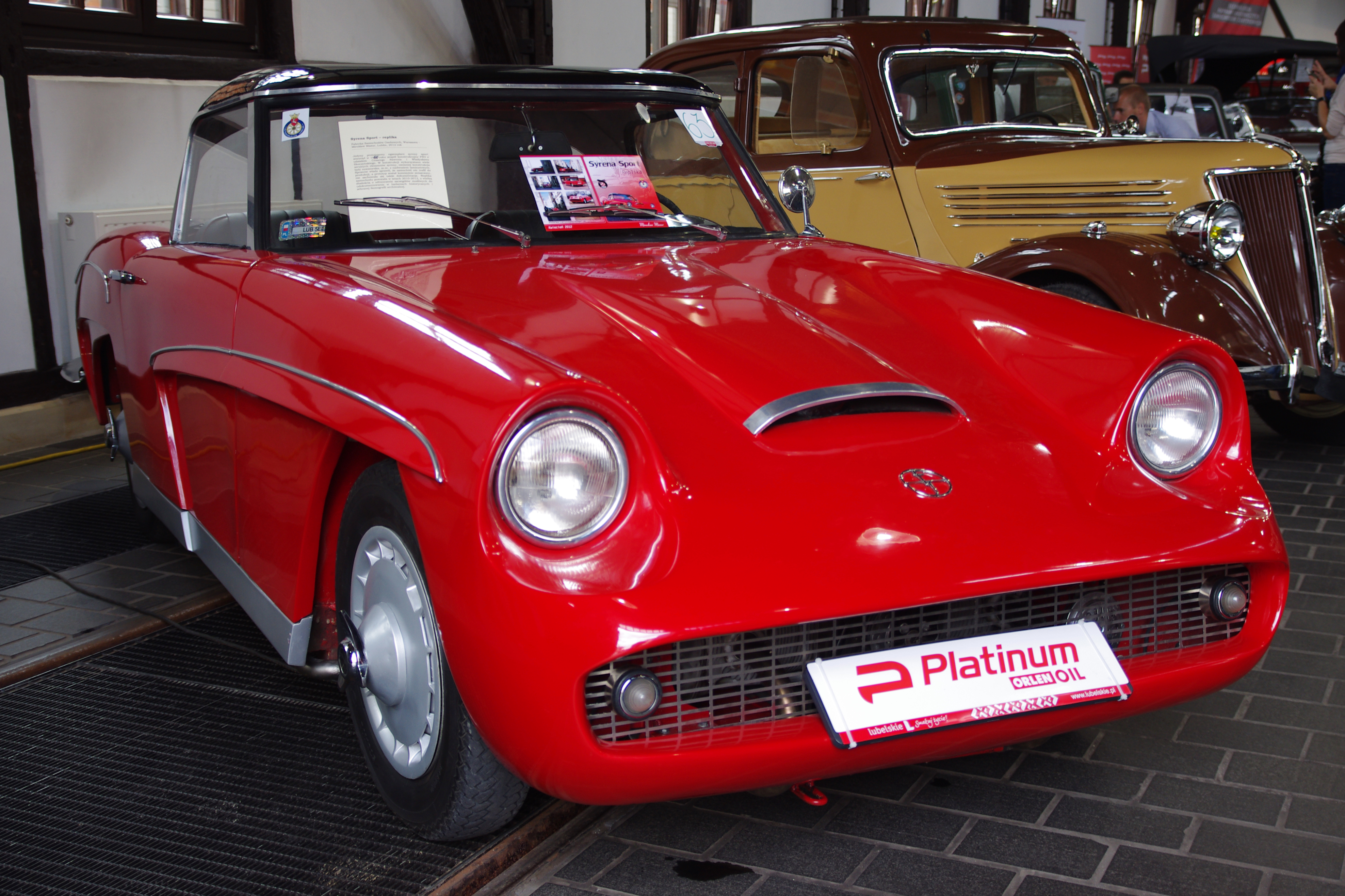 The Replica Of Syrena Sport at the Classic Moto Show in Kraków